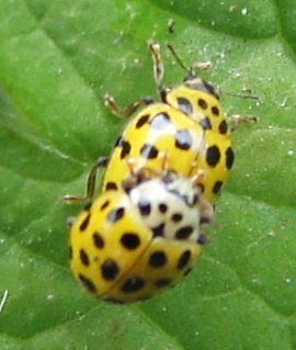 Thea vigintiduopunctata mating in Nettersheim, Germany.